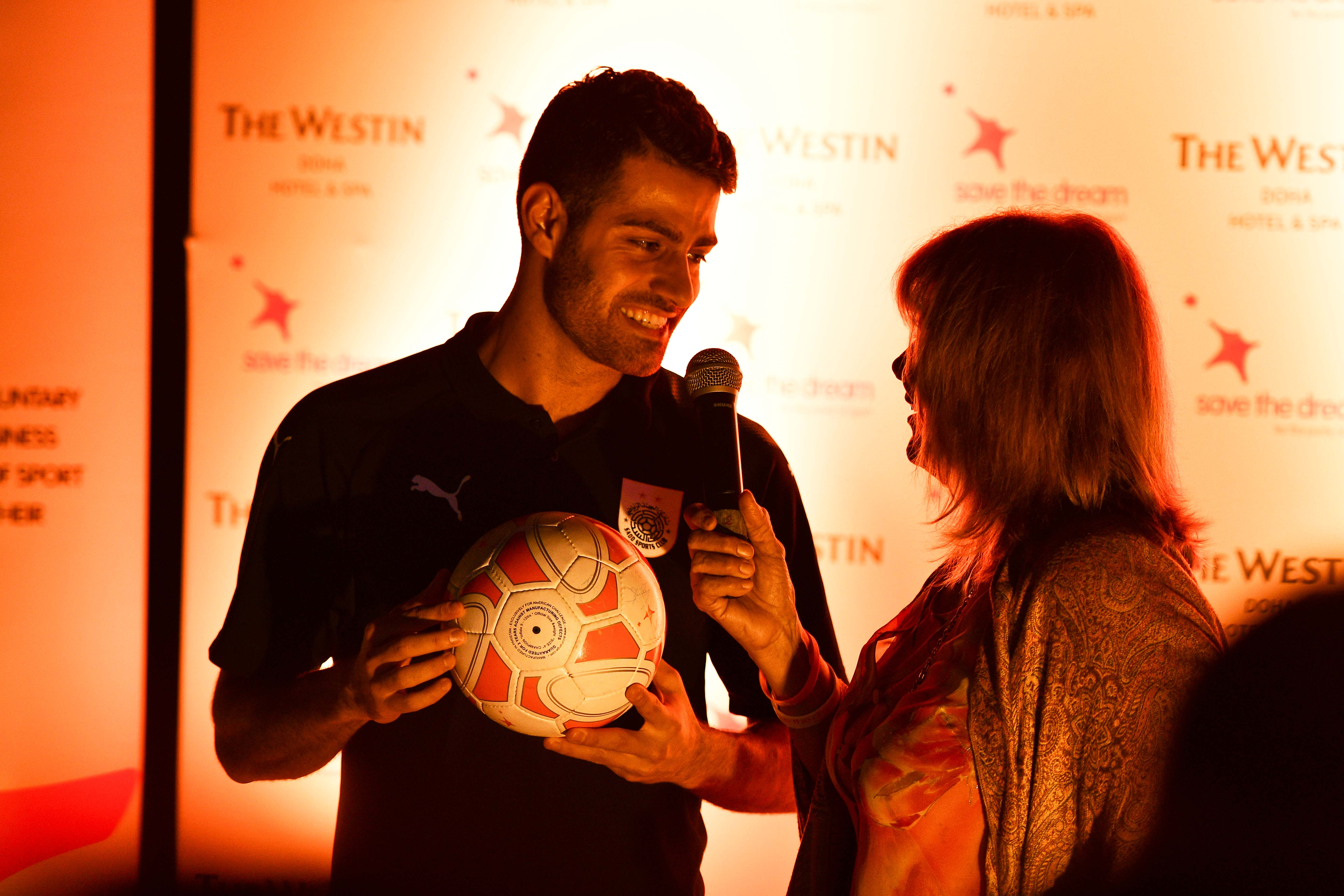 Iranian professional football player Morteza Pouraliganji joined Save the Dream to celebrate Universal Children's Day.